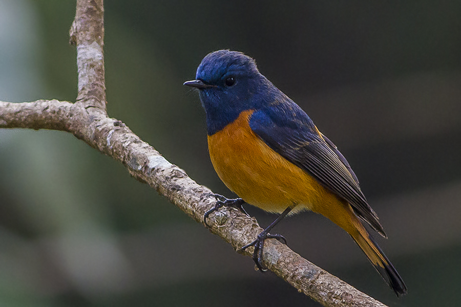 This image file contains the photograph of Blue-fronted Redstart from Aritar from the state of Sikkim, India, Photographed on 7th January 2014.